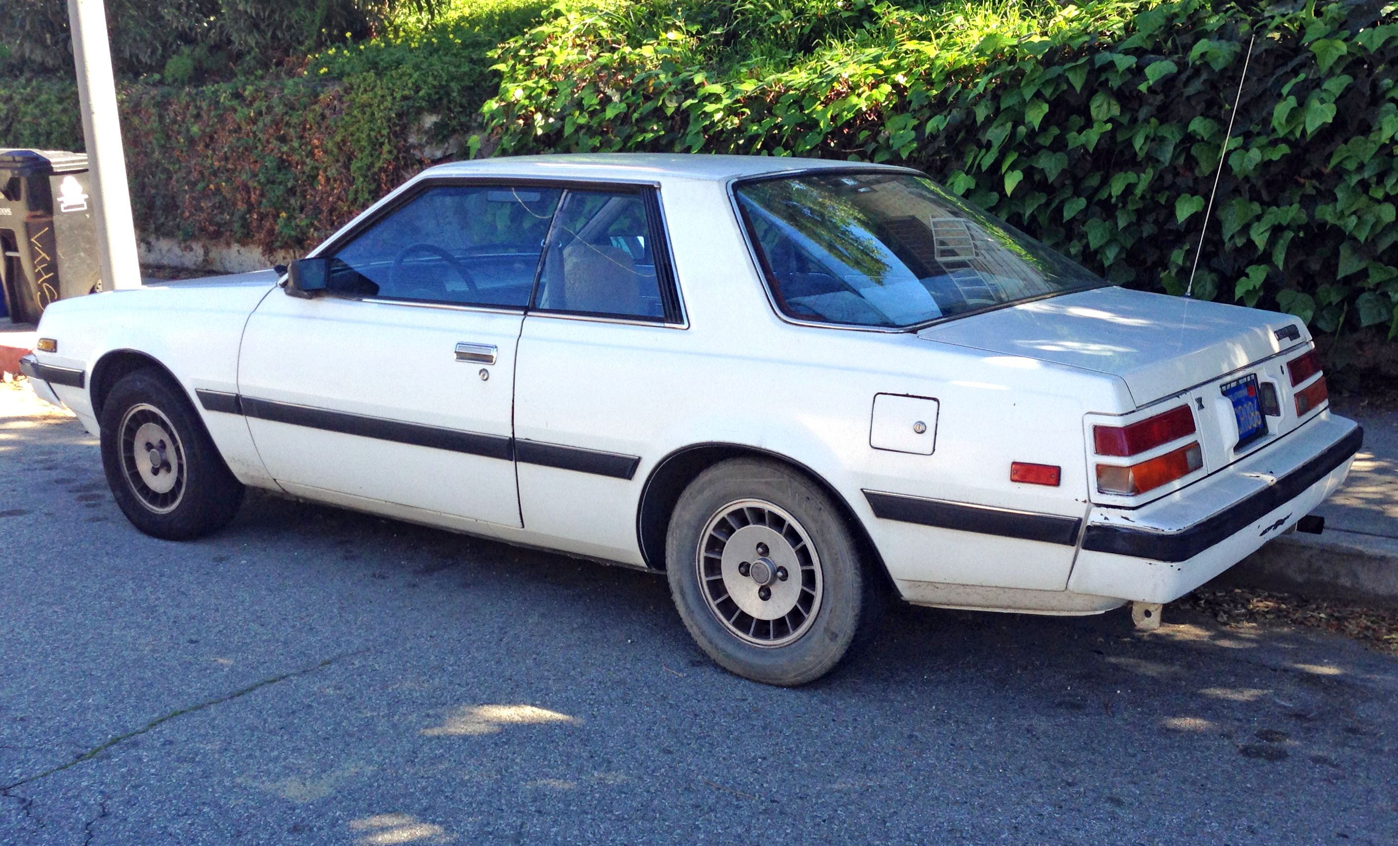 A 1981 Dodge Challenger X. This rebadged Galant Lambda is a facelift model with the redesigned body and a more sporting appearance. Still on original (presumably) California blue-and-gold plates!